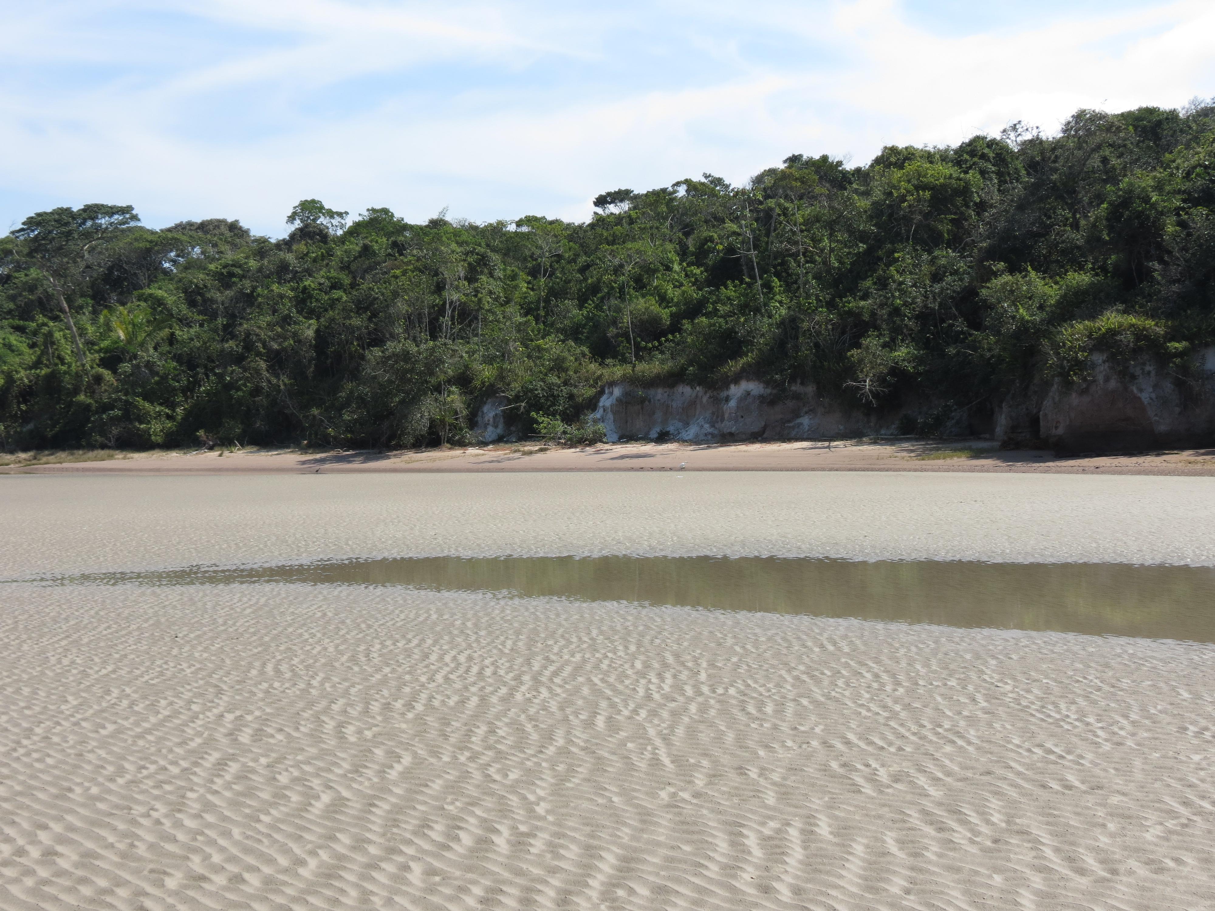 Restinga forest in Itaguaré beach, Brazil.